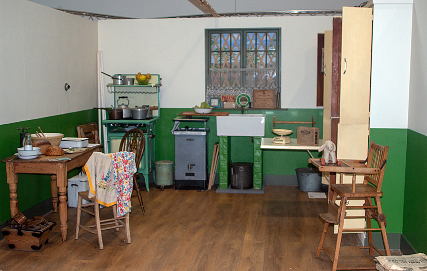 1940's kitchen reconstruction at the Milestones Museum, Basingstoke